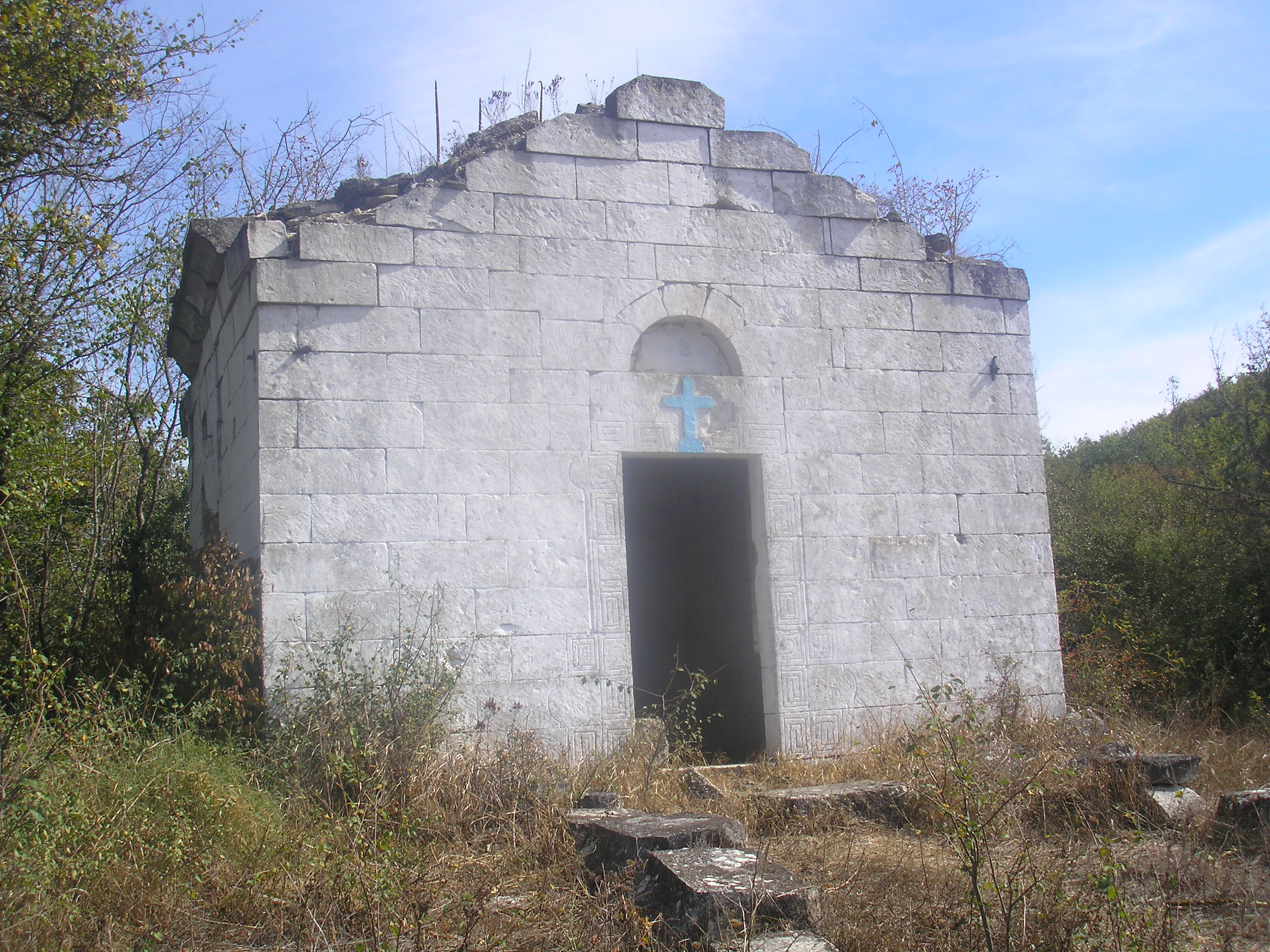 Greek Church of the former village Audzhikoy (Ohotnichye), Bakhchisaray Raion, the Crimea.